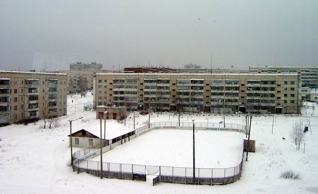 mashin